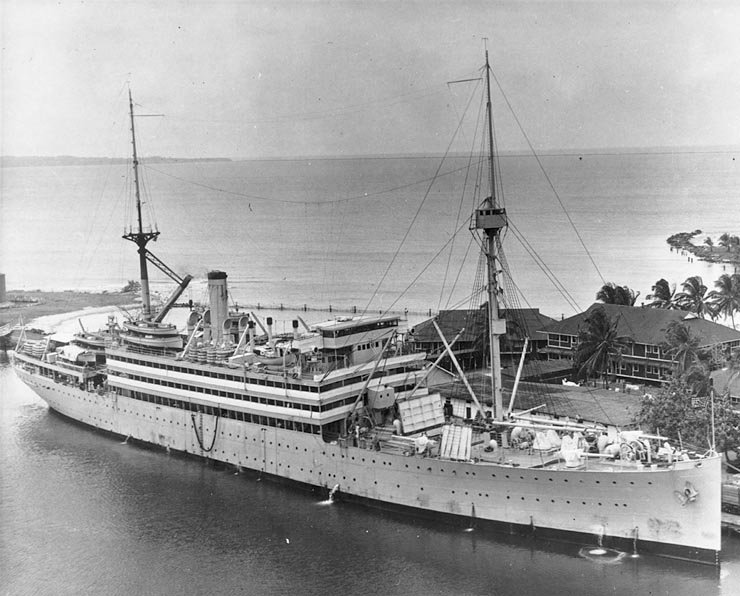 USS Henderson (AP-1) at Coco Solo, Panama Canal Zone, on 6 January 1933. Photographed from an aircraft based at Naval Air Station, Coco Solo. Note, the open cargo hatch forward of the bridge.